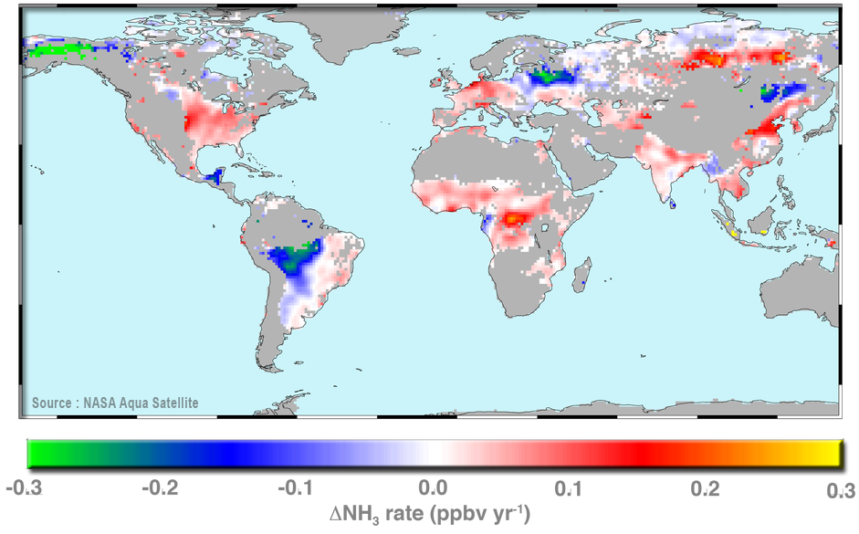 Global atmospheric ammonia trends measured from space from 2002 to 2016. Hot colors represent increases from a combination of increased fertilizer application, reduced scavenging by acid aerosols and climate warming. Cool colors show decreases due to reduced agricultural burning or fewer wildfires. ; The first global, long-term satellite study of airborne ammonia gas has revealed “hotspots” of the pollutant over four of the world’s most productive agricultural regions. The results of the study, conducted using data from NASA’s Atmospheric Infrared Sounder (AIRS) instrument on NASA’s Aqua satellite, could inform the development of strategies to control pollution from ammonia and ammonia byproducts in Earth’s agricultural areas. A University of Maryland-led team discovered steadily increasing ammonia concentrations from 2002 to 2016 over agricultural centers in the United States, Europe, China and India. Increased concentrations of atmospheric ammonia are linked to poor air and water quality. The NASA-funded study, published March 16 in Geophysical Research Letters, describes probable causes for the observed increased airborne ammonia concentrations in each region. Although specifics vary between areas, the increases are broadly tied to crop fertilizers, livestock animal wastes, changes to atmospheric chemistry, and warming soils that retain less ammonia. more here